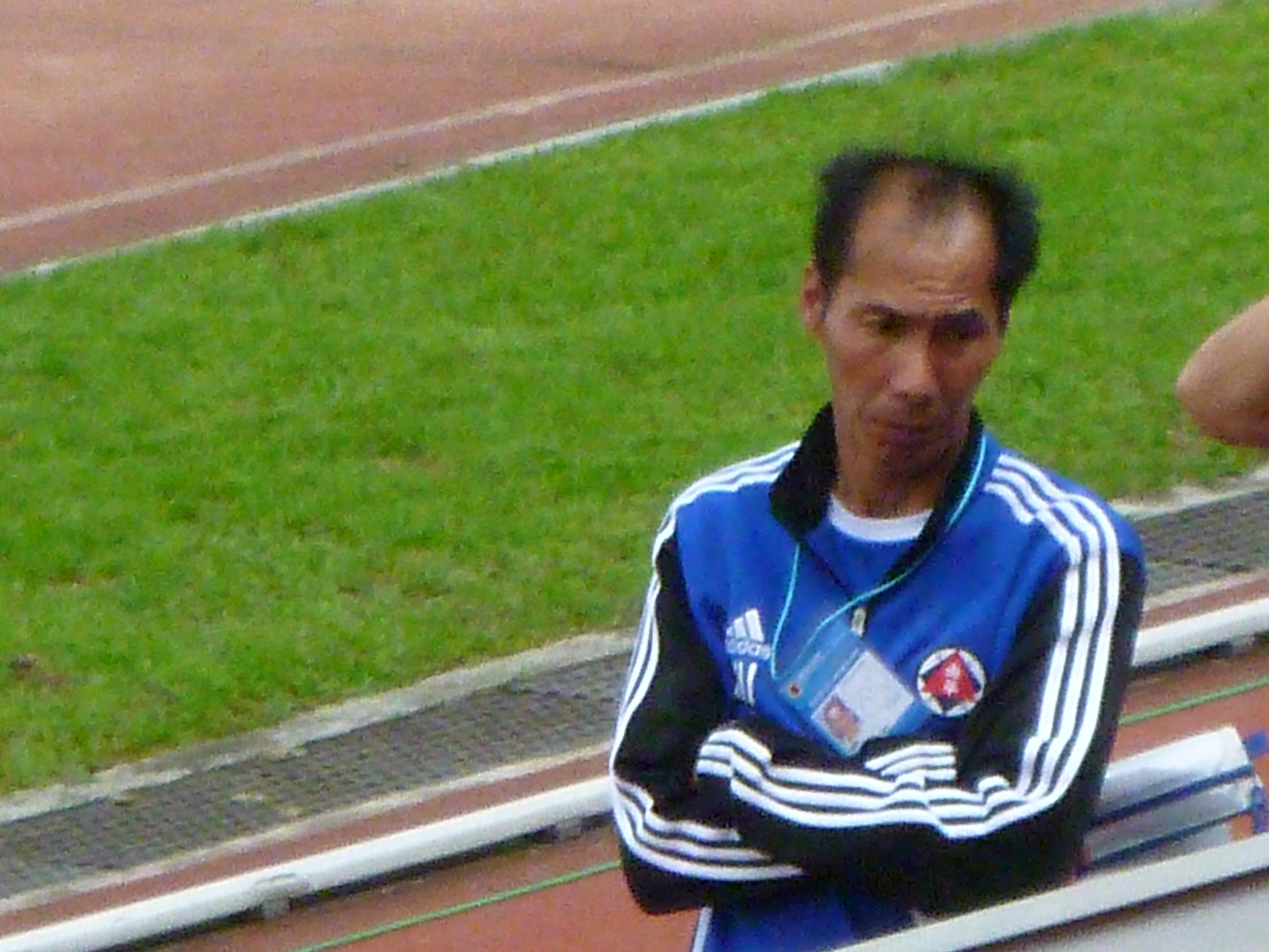 Ku Kam Fai (17 Mar 2012 Hong Kong First Division League, Tai Po vs South China, Tai Po Sports Ground)